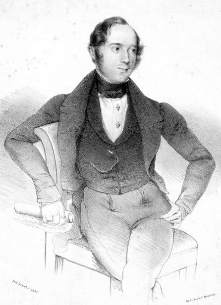 Slovenian pianist and composer Jurij Mihevec (1805-1882).